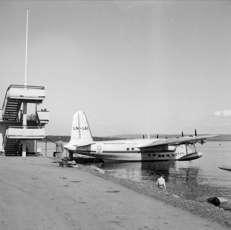 Scandinavian Airlines System (SAS) Shorts Sandringham flying boat at Oslo Airport, Fornebu